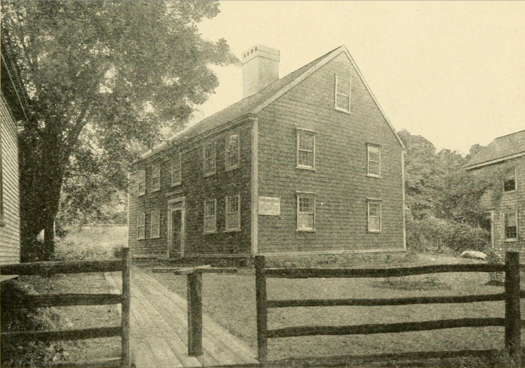 Photograph of the John Howland House built in 1666 in Plymouth, Mass. Photographed circa 1921